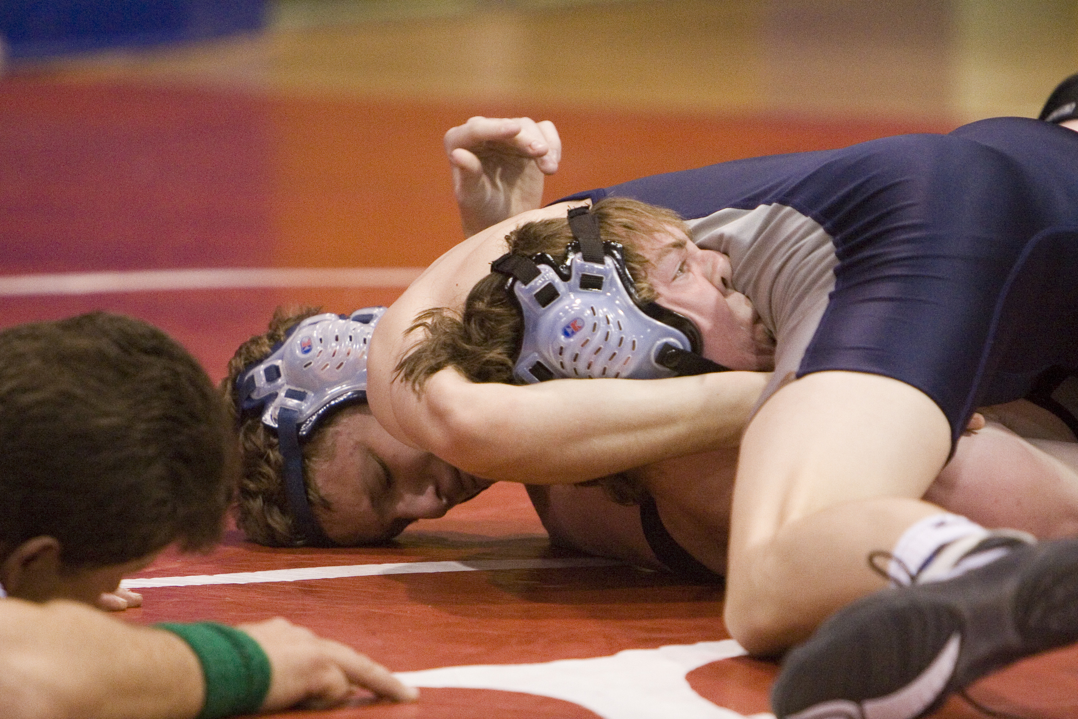 Two high school students wrestling (collegiate, scholastic, or folkstyle) in the United States. Originally uploaded by Wikiman86 on the English Wikipedia project at